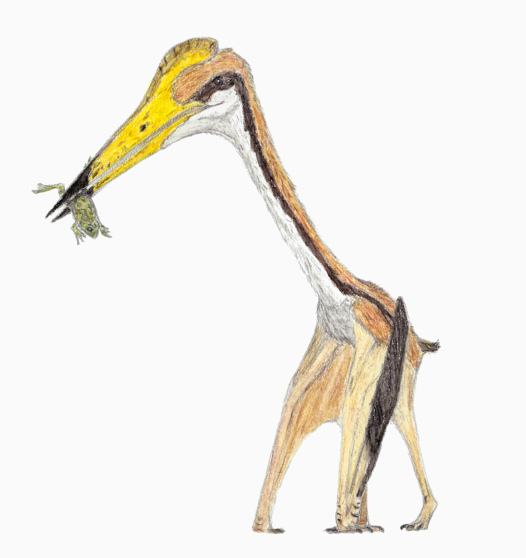 Eurazhdarcho langendorfensis, a small azhdarchid of the late Cretaceous (Maastrichtian) from Romania